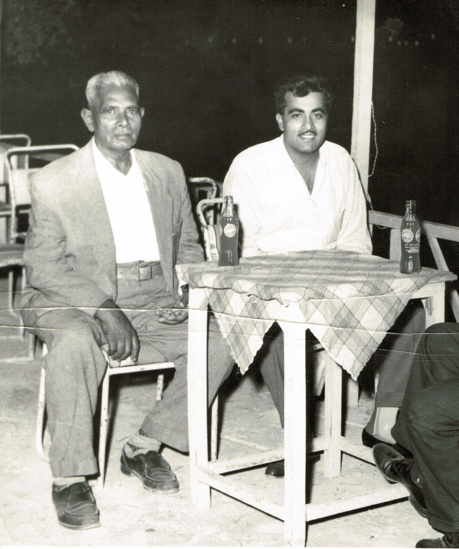 Gokul Chand Mukerji with his son Kamal Mukerji in Basrah, Iraq. The Picture was labeled by Kamal Mukerji as "10 October 1962, Basrah"